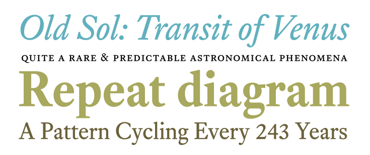 Sample image of Matthew Butterick's serif font Equity, based on Monotype's Ehrhardt.